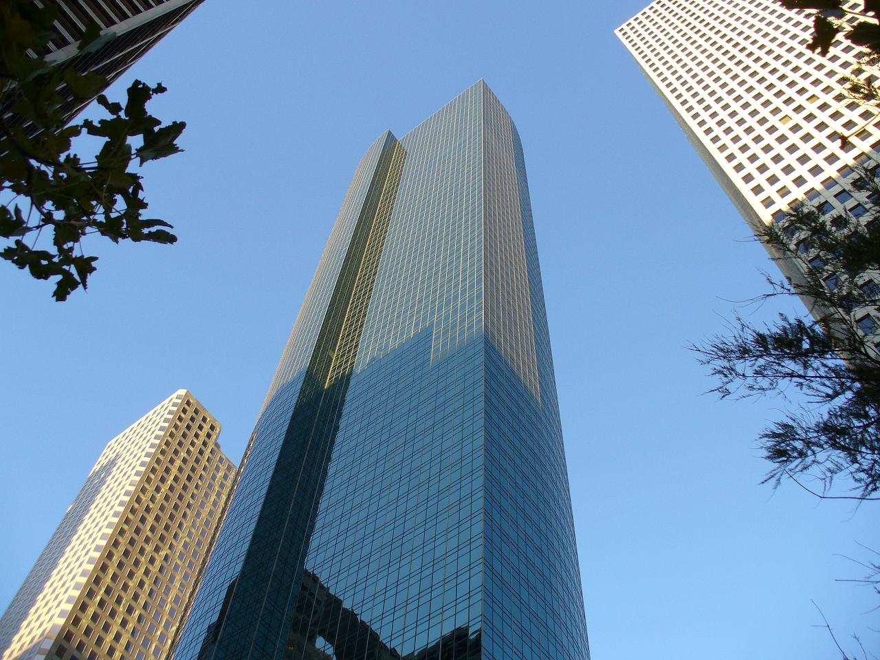 Wells Fargo Plaza from base